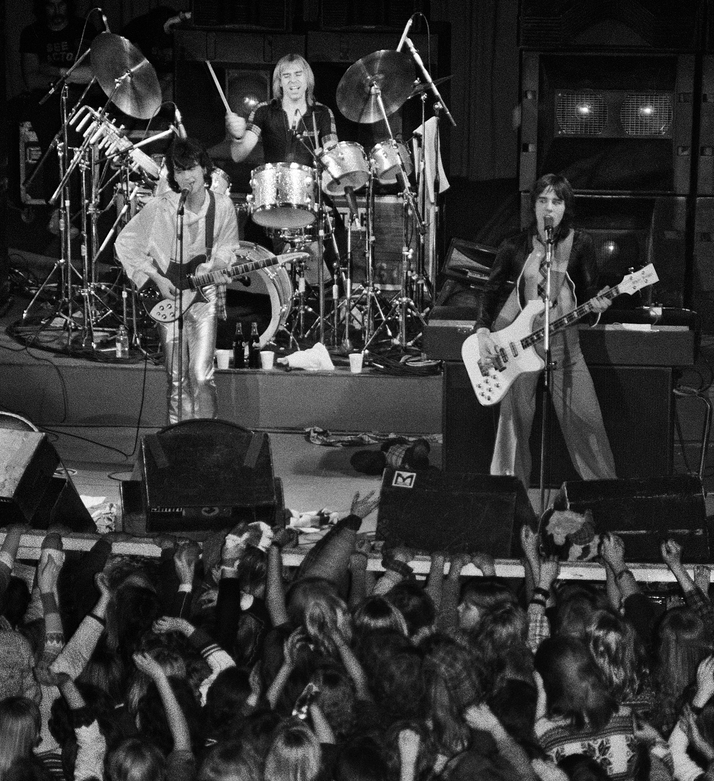 Bay City Rollers in Helsinki concert at 8th February 1978.